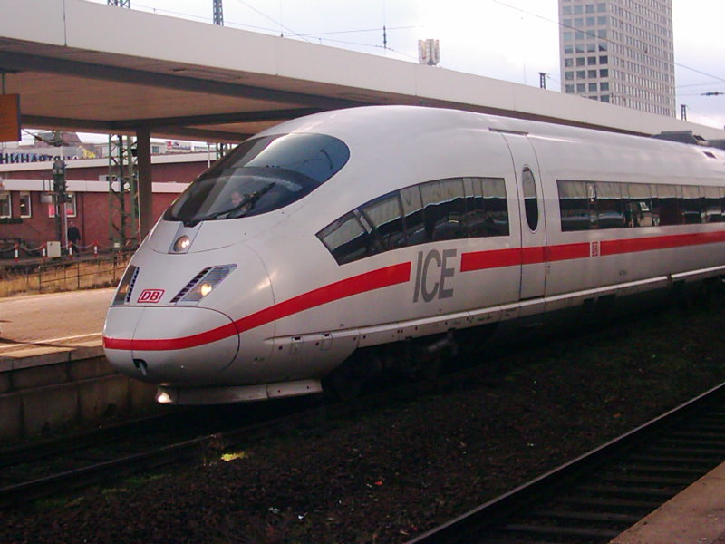 A ICE3 train at Dortmund Hauptbahnhof (main station)